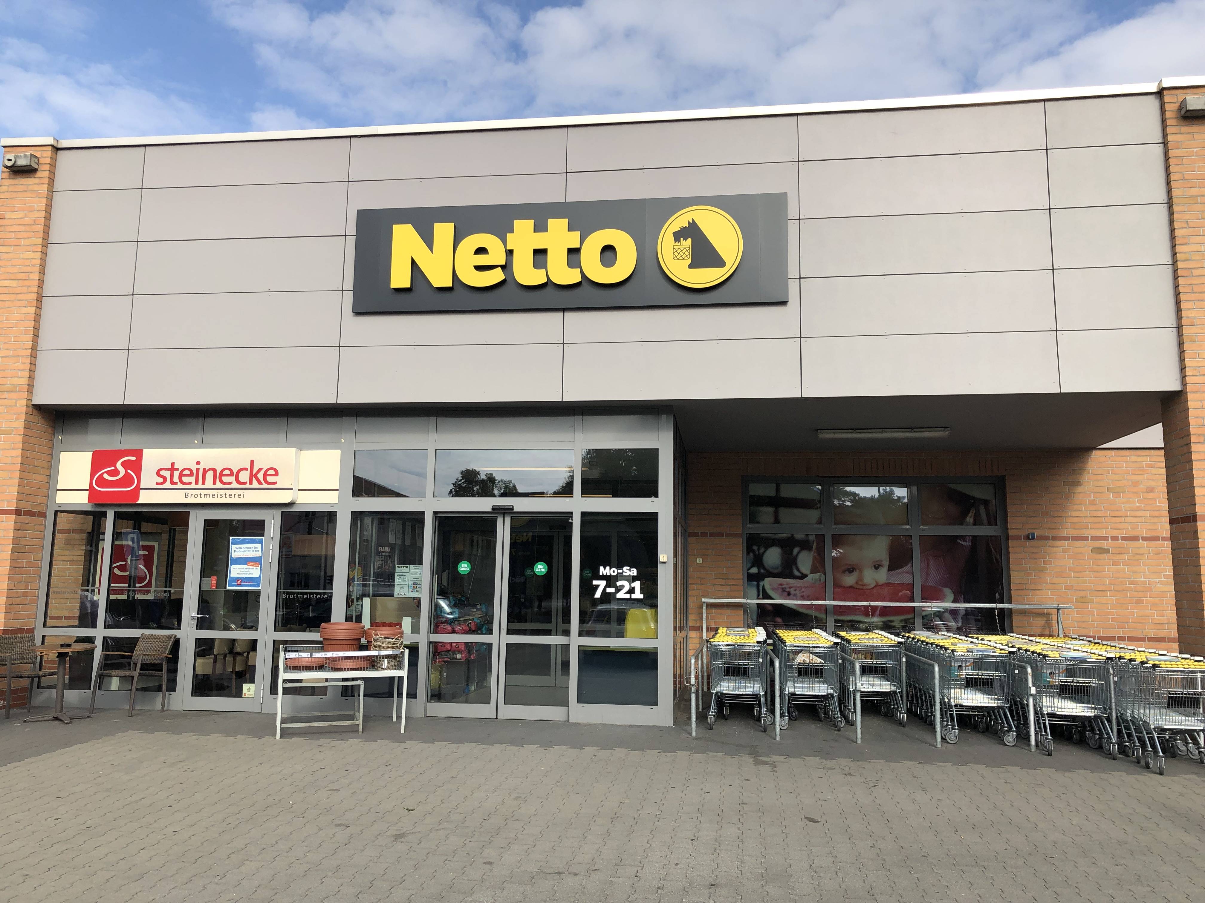 Image of the Netto supermarket in Hennigsdorf